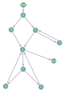 random graph for control flow analysis